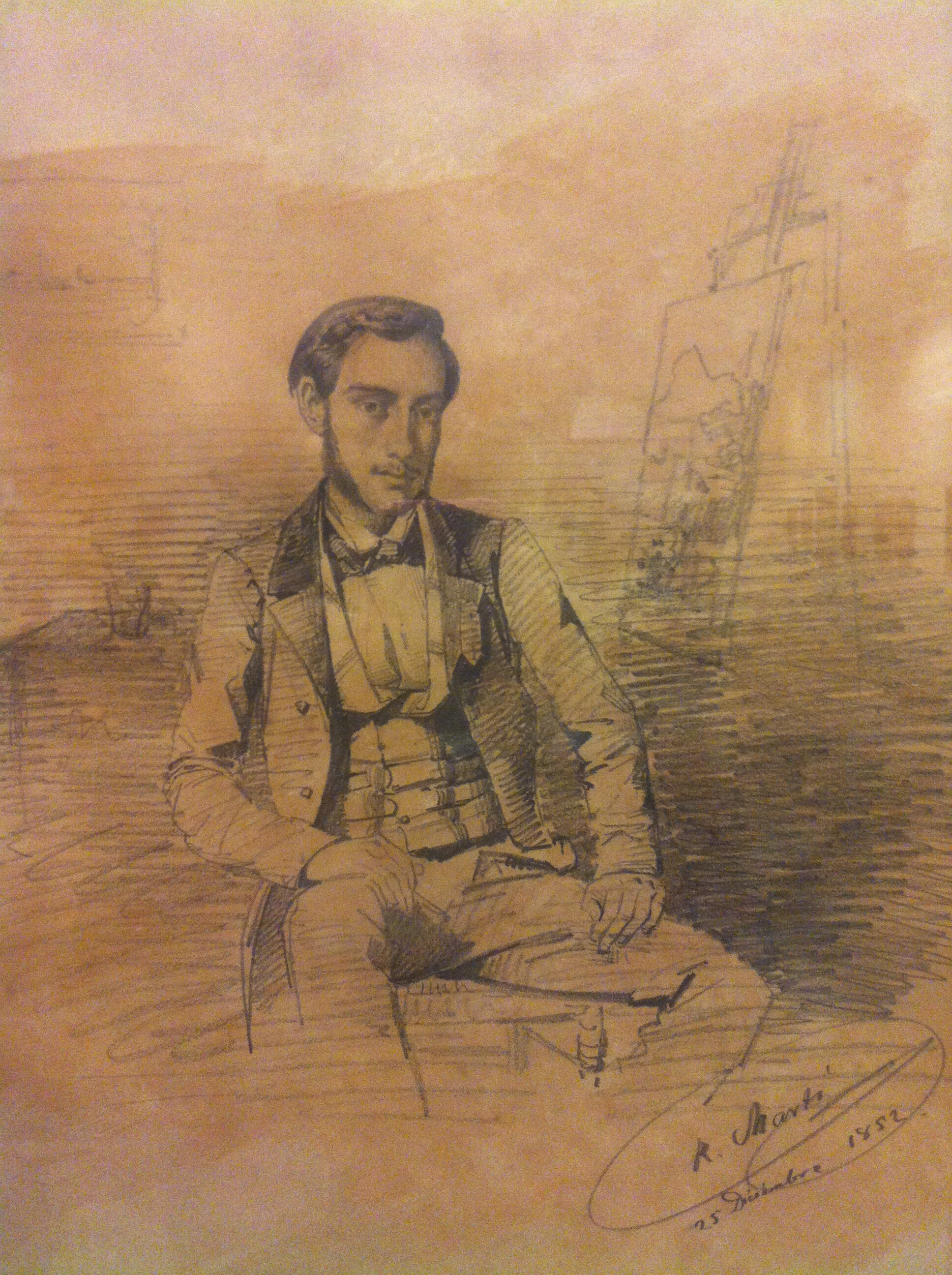 Portrait of Narcís Monturiol